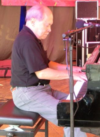 Dutch Jazz and Boogie Woogie pianist Rob Agerbeek at The Summer Festival in The Hague on 28 July 213